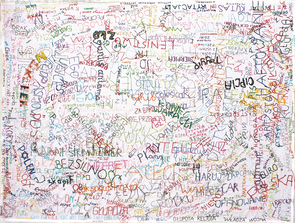 Mnika Drożynska "Stitch_Yourself", hand embroidery on cotton,_160x200 cm.